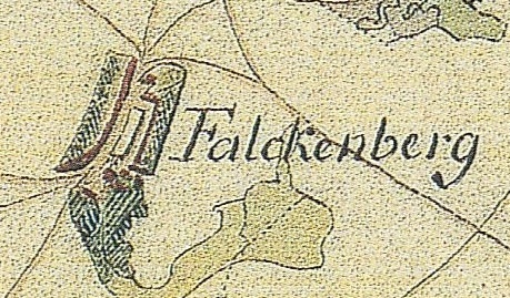 Village Falkenberg in a Schmettau map from 1767/87 (map extract). Today, Falkenberg is a part of the municipality Tauche in the District Oder-Spree, Brandenburg, Germany.